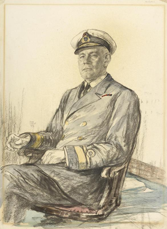 Rear-admiral William Coldingham Masters Nicholson, Cb image: a three quarter length portait of Rear Admiral William Nicholson in Royal Navy uniform and cap. He sits on a chair with his legs crossed.